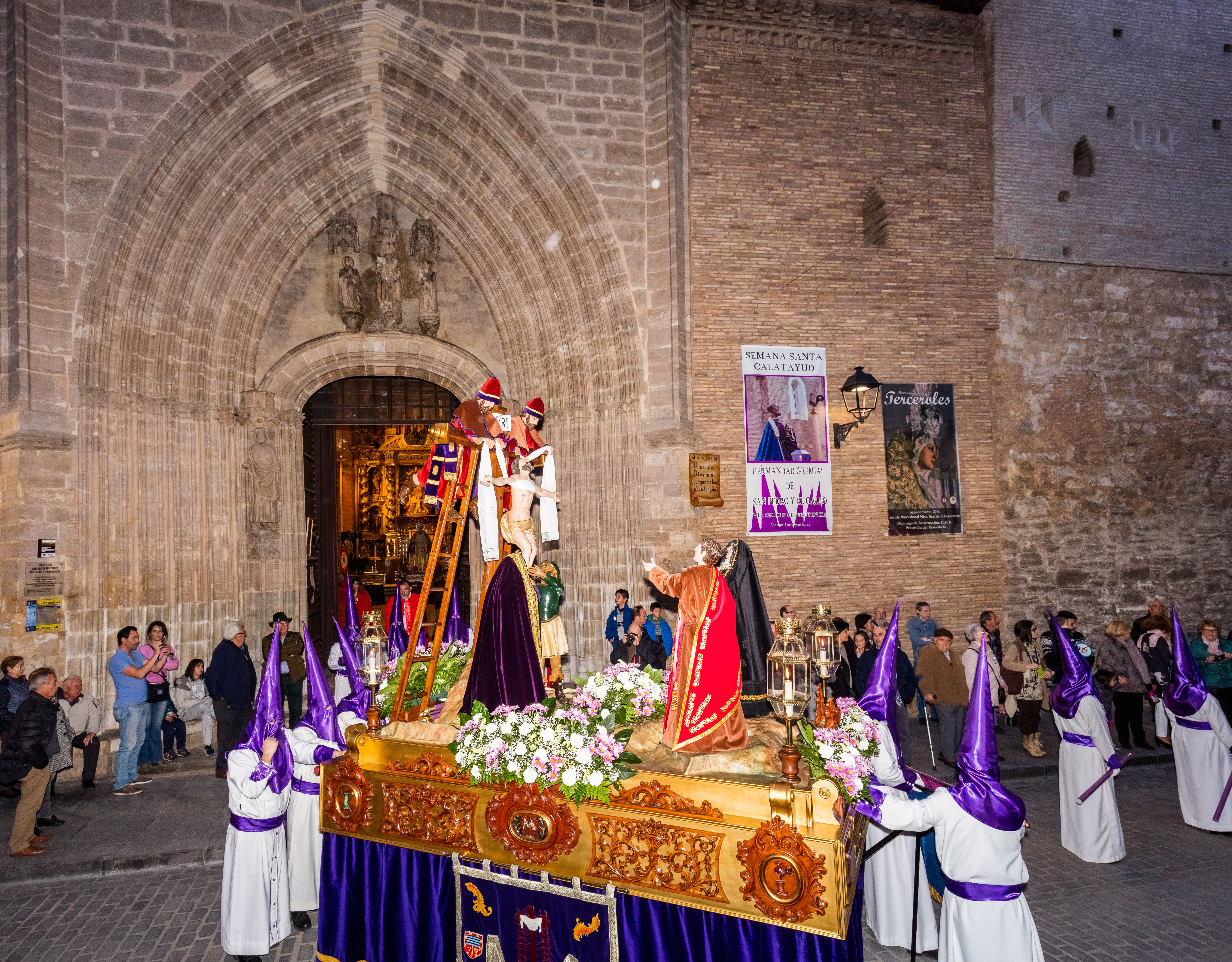 Deposition of Christ Procession on Maundy Thursday, Holy Week in Calatayud, Spain.